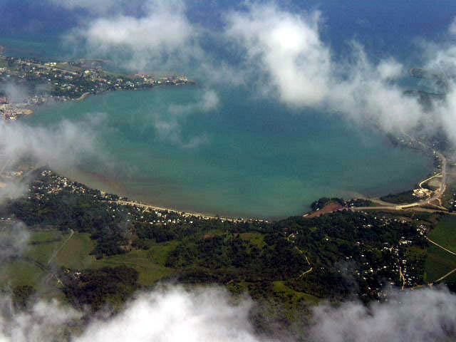 Montego Bay, Location: Montego Bay, Jamaica.